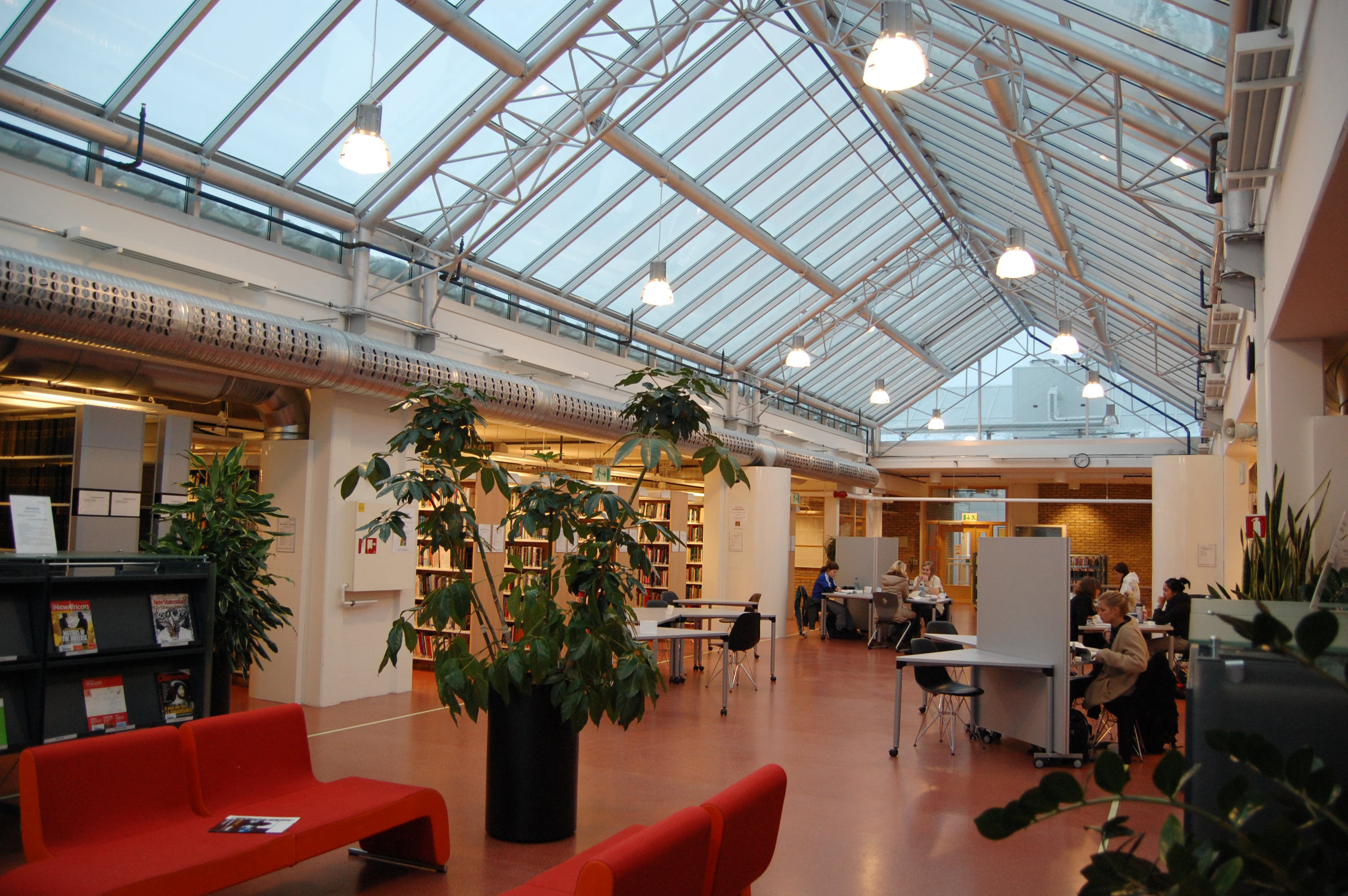 Reading area in the Dragvoll Library; part of the NTNU University Library, Trondheim, Norway. Architect: Henning Larsens tegnestue